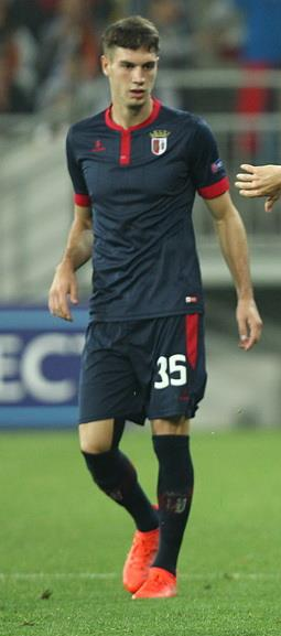 SHAKHTAR DONETSK VS. SPORTING BRAGA 2 - 0